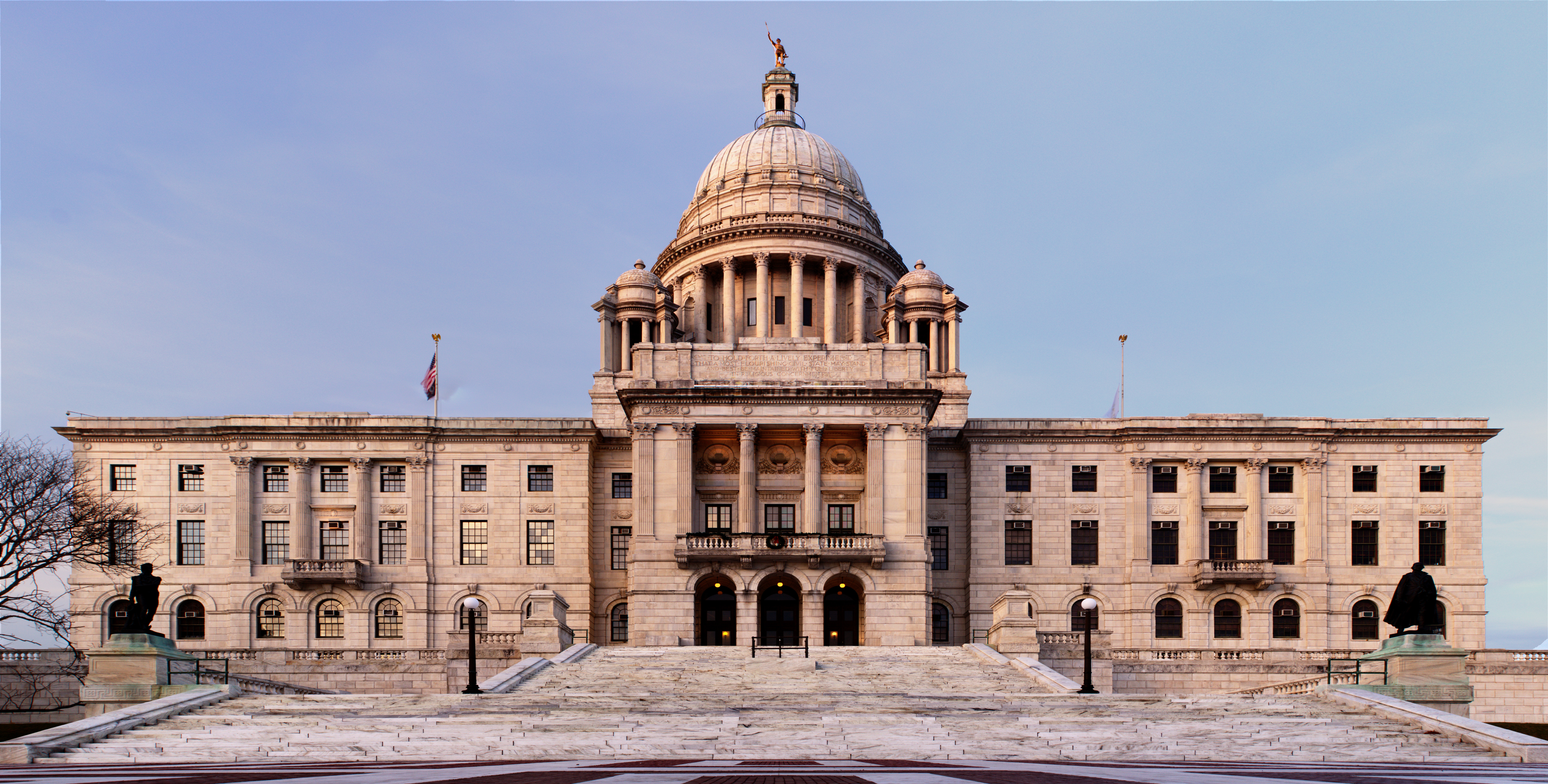 View of the Rhode Island State House from the South side.